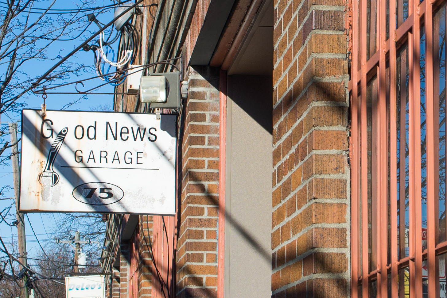 Tom and Ray Magliozzi's garage in Cambridge, MA.